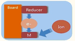 Electroless plating